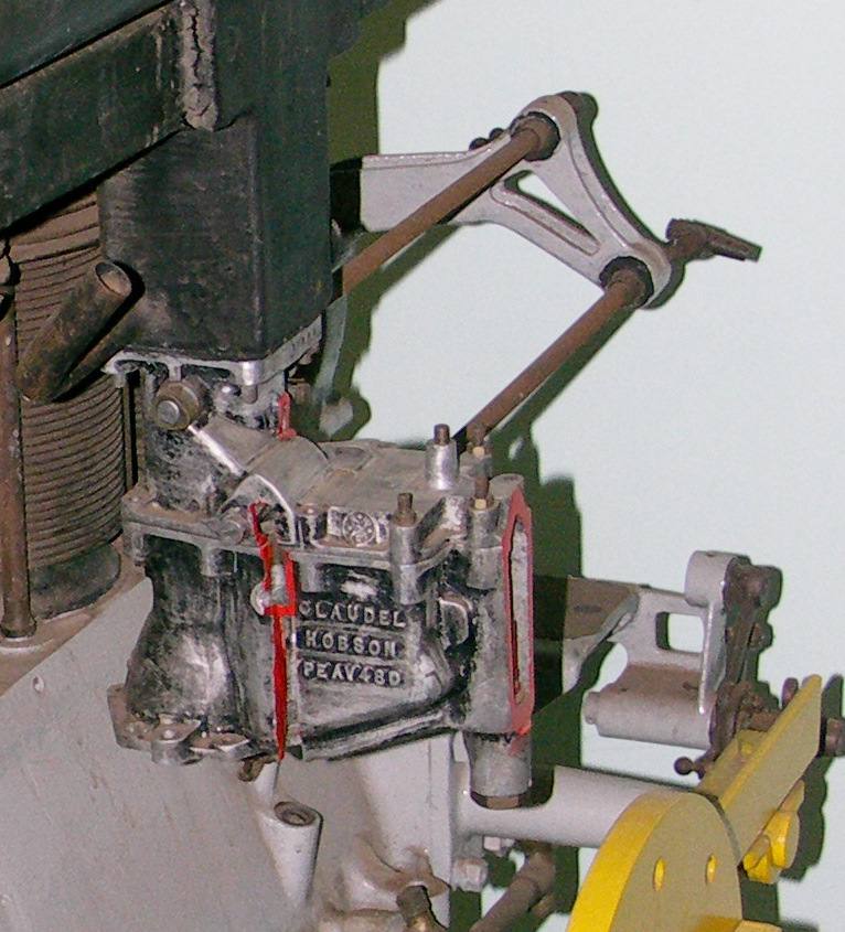 A Claudel-Hobson carburetor on a de Havilland Gypsy aircraft engine